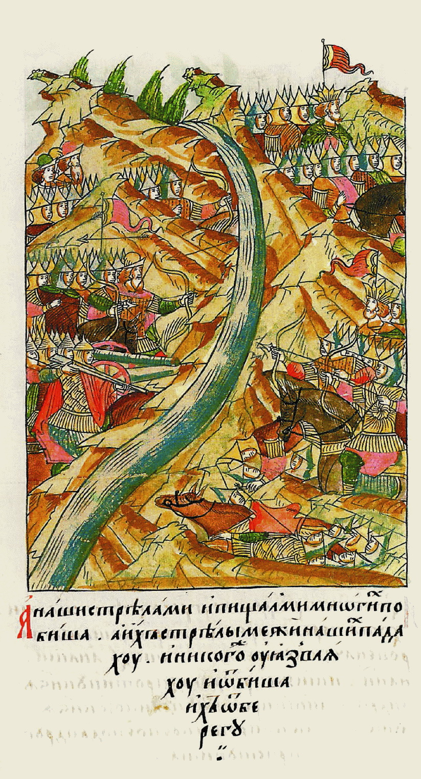 Standing on the Ugra river. 1480. Miniature in Russian chronicle. XVI century. ‘And our men had beaten many foes with arrows and muskets, and their arrows had fallen between our men, and had nobody hurting, and had repelling them off the shore’.